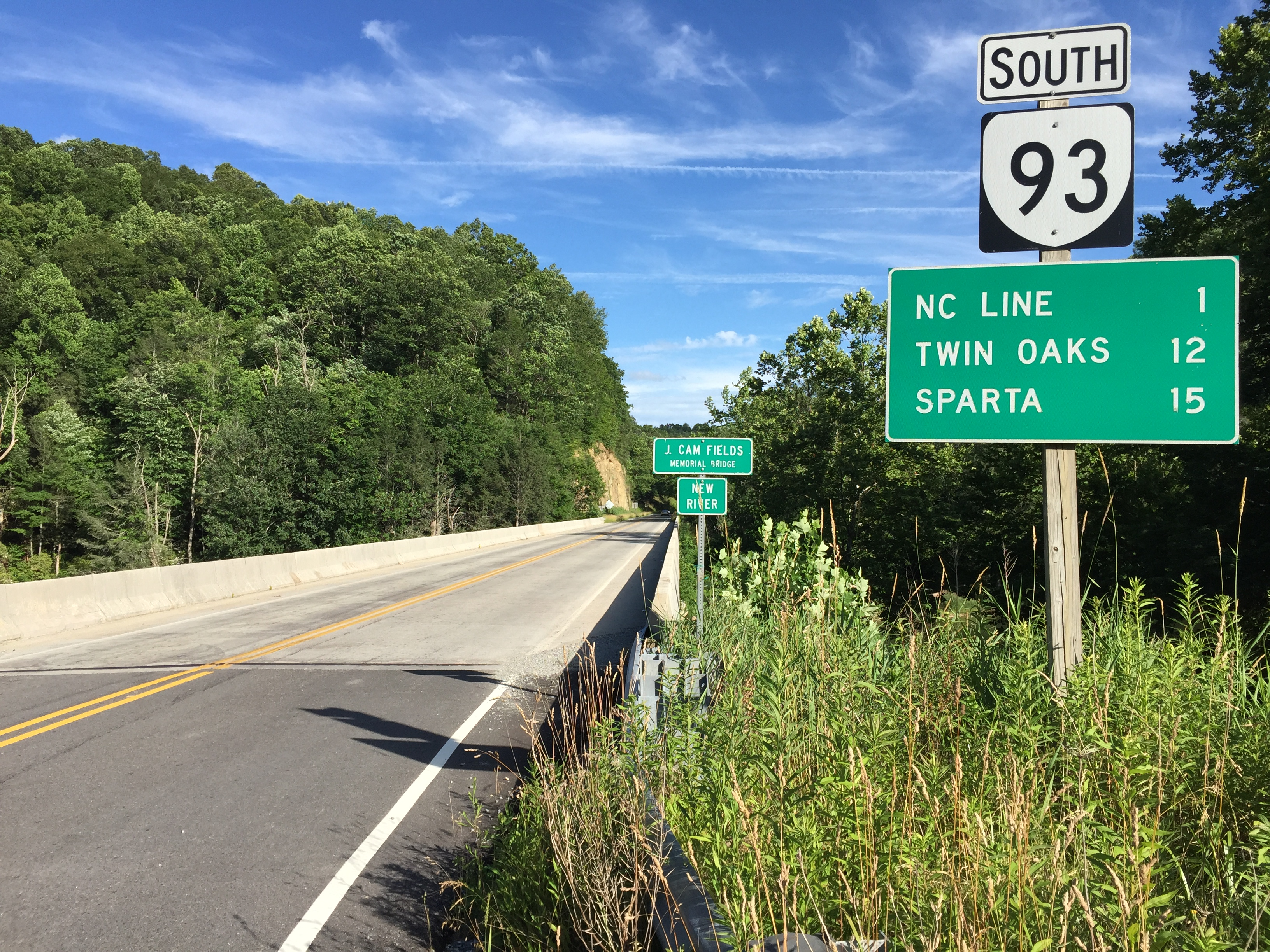 View south along Virginia State Route 93 (County Line Road) at its bridge over New River, just south of U.S. Route 58 (Wilson Highway) in Mouth of Wilson, Grayson County, Virginia